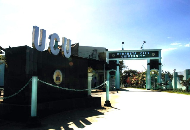 Entrance of Urdaneta City University